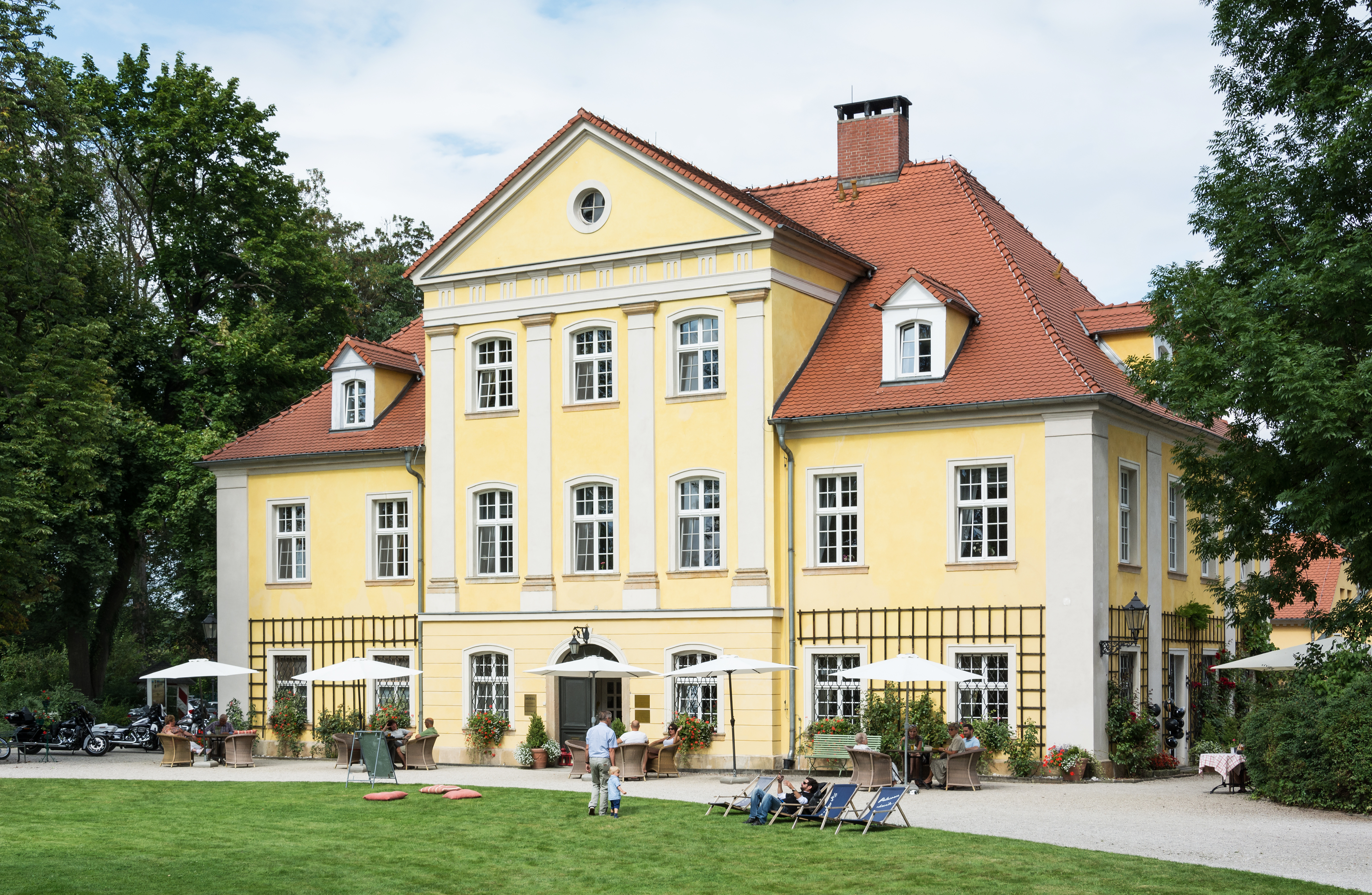 Manor in Łomnica